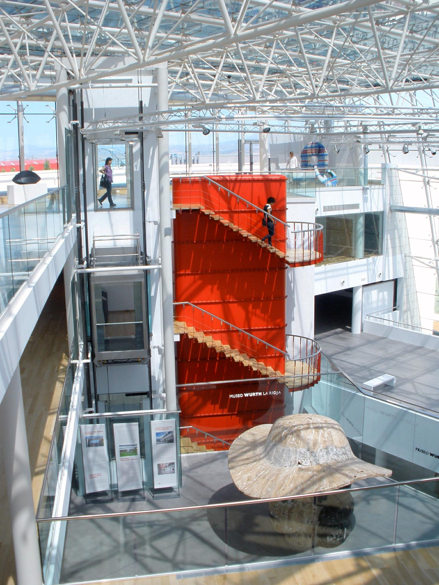 Museo Würth La Rioja (Agoncillo, La Rioja, España)